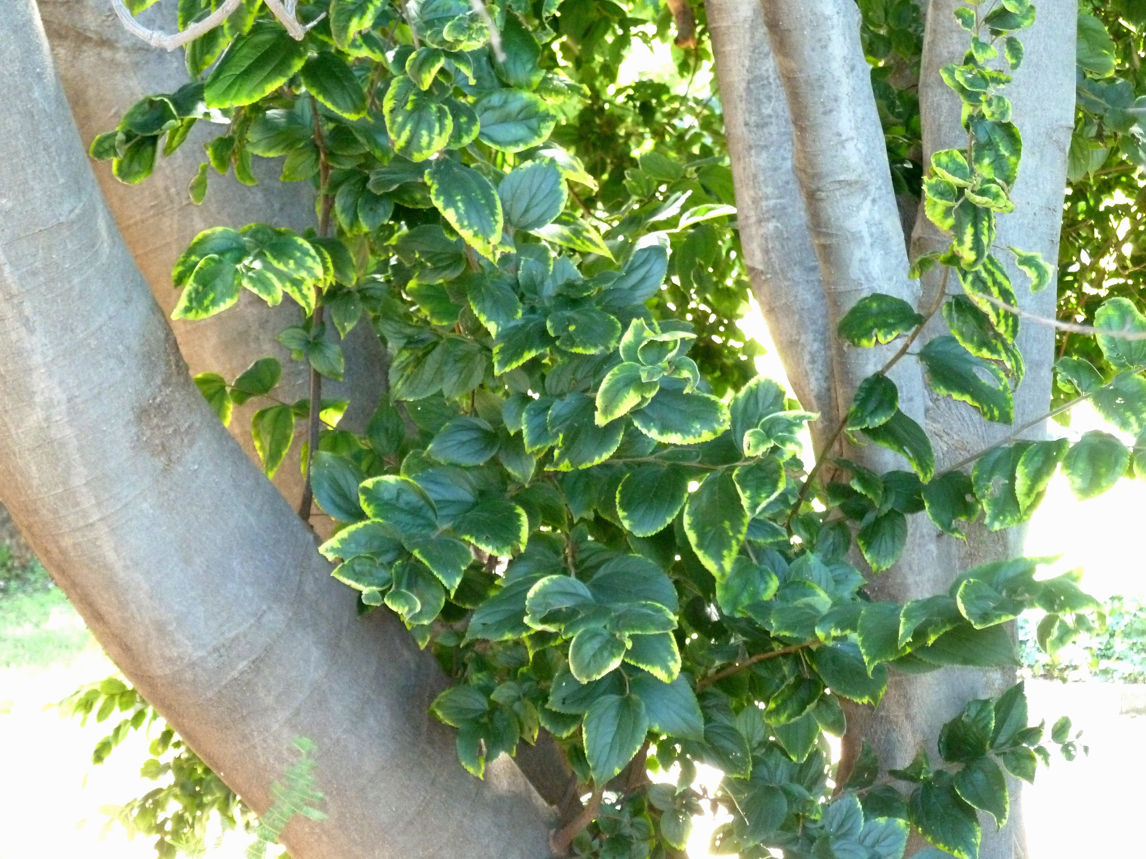 Foliage of a White Stinkwood in the gardens of the Union Buildings, Pretoria